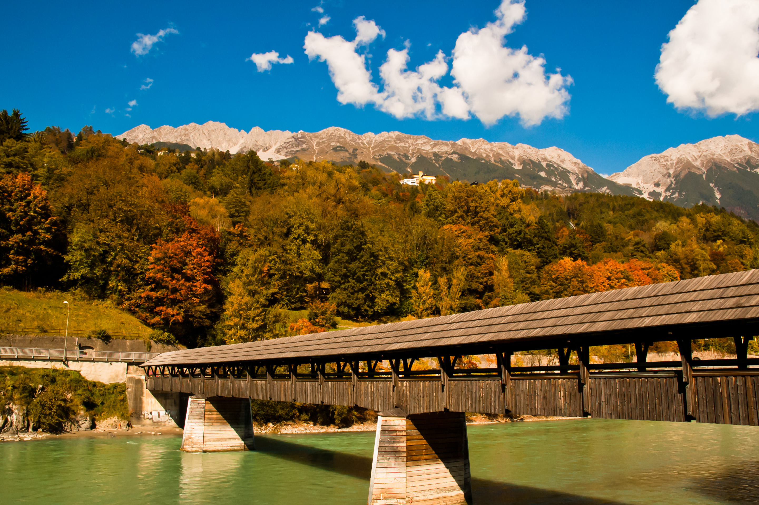 Pedestrian bridge over the Inn River in Innsbruck, Austria.